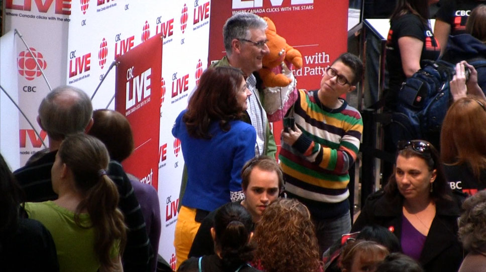 CBC Live event at Sherway Gardens.